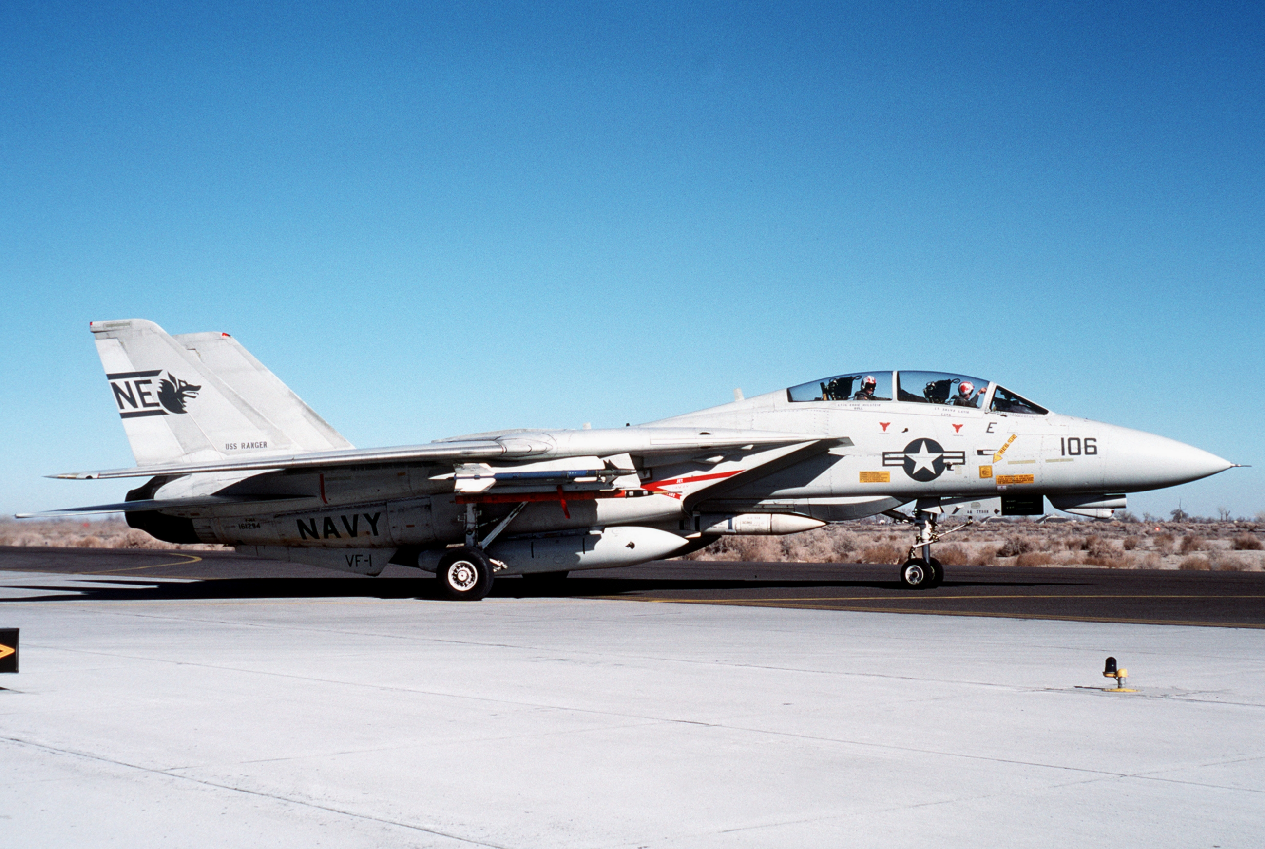 A U.S. Navy Grumman F-14A-115-GR Tomcat (BuNo 161294) from fighter squadron VF-1 Wolf Pack at the Naval Air Station Fallon, Nevada (USA), in 1986.